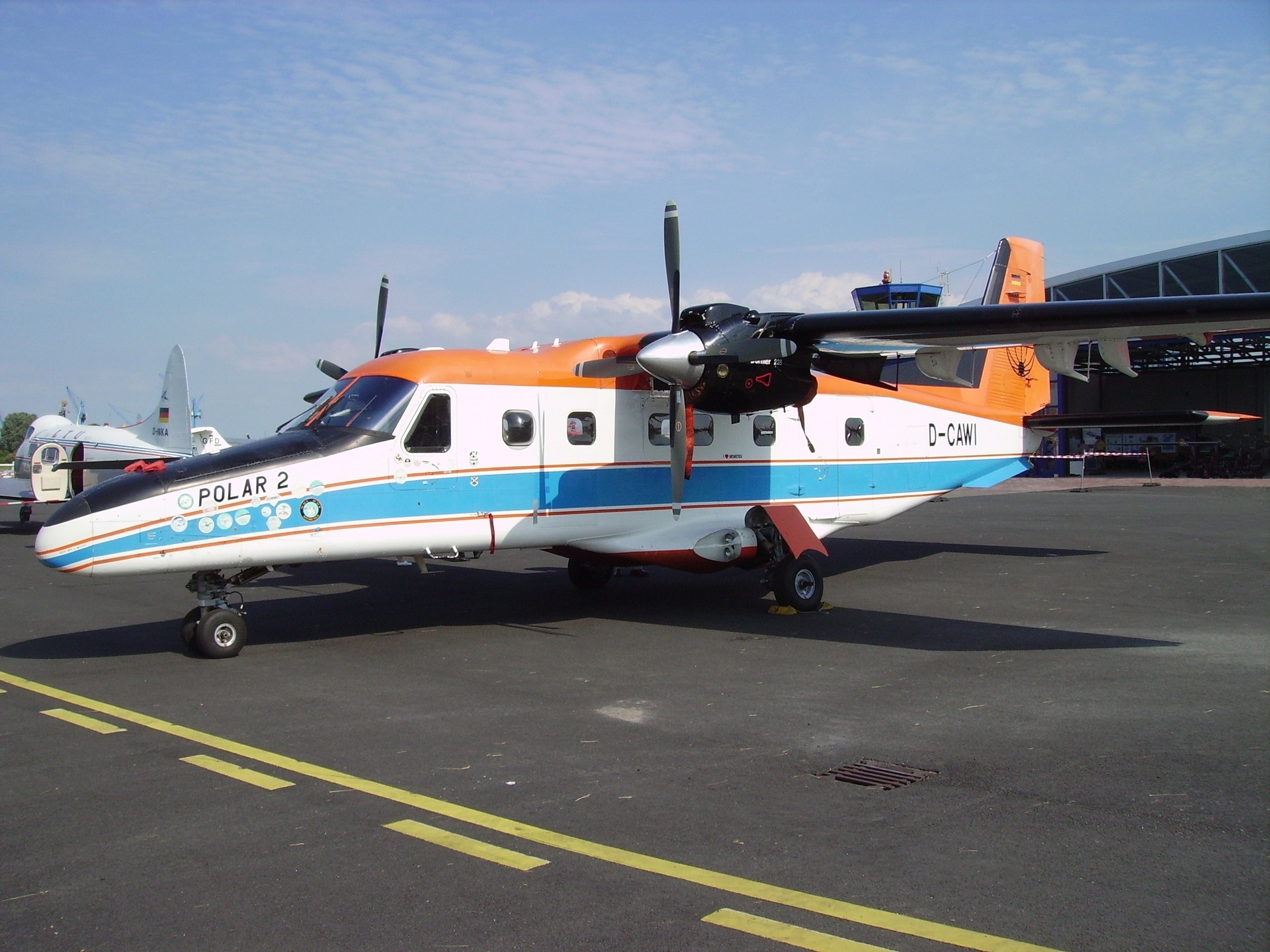 The Polar 2 is a Dornier 228/101 aircraft used by the Alfred Wegener Institute for Polar and Marine Research